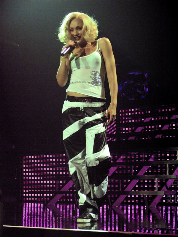 Gwen Stefani performing "Luxurious" in Duluth, Georgia, United StatesS E R I O U S